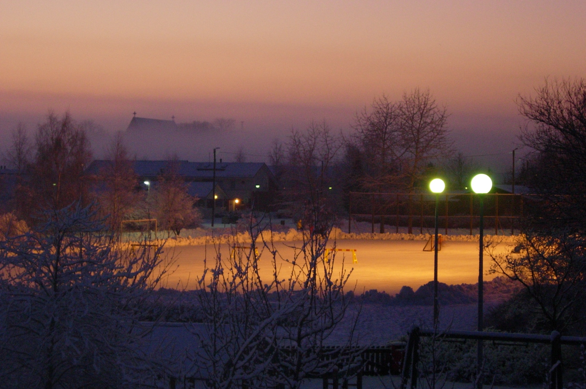 Räimän kenttä (Räimä field) in Räntämäki, Turku, Finland